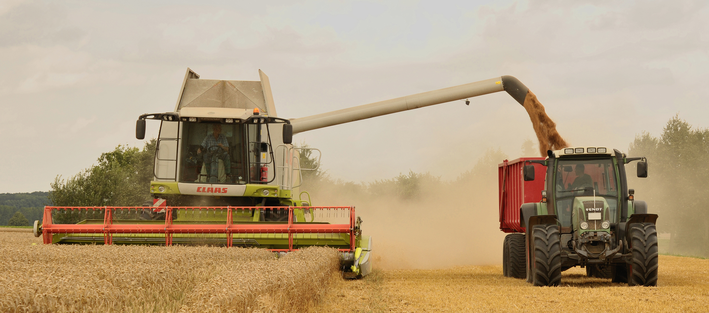 The wheat harvest near Eldagsen in Germany. The combine Claas Lexion 584 06833 mows, threshes, shreddes the chaff and blows it across the field. In the meantime he loads the threshed wheat at full speed on a trailer.